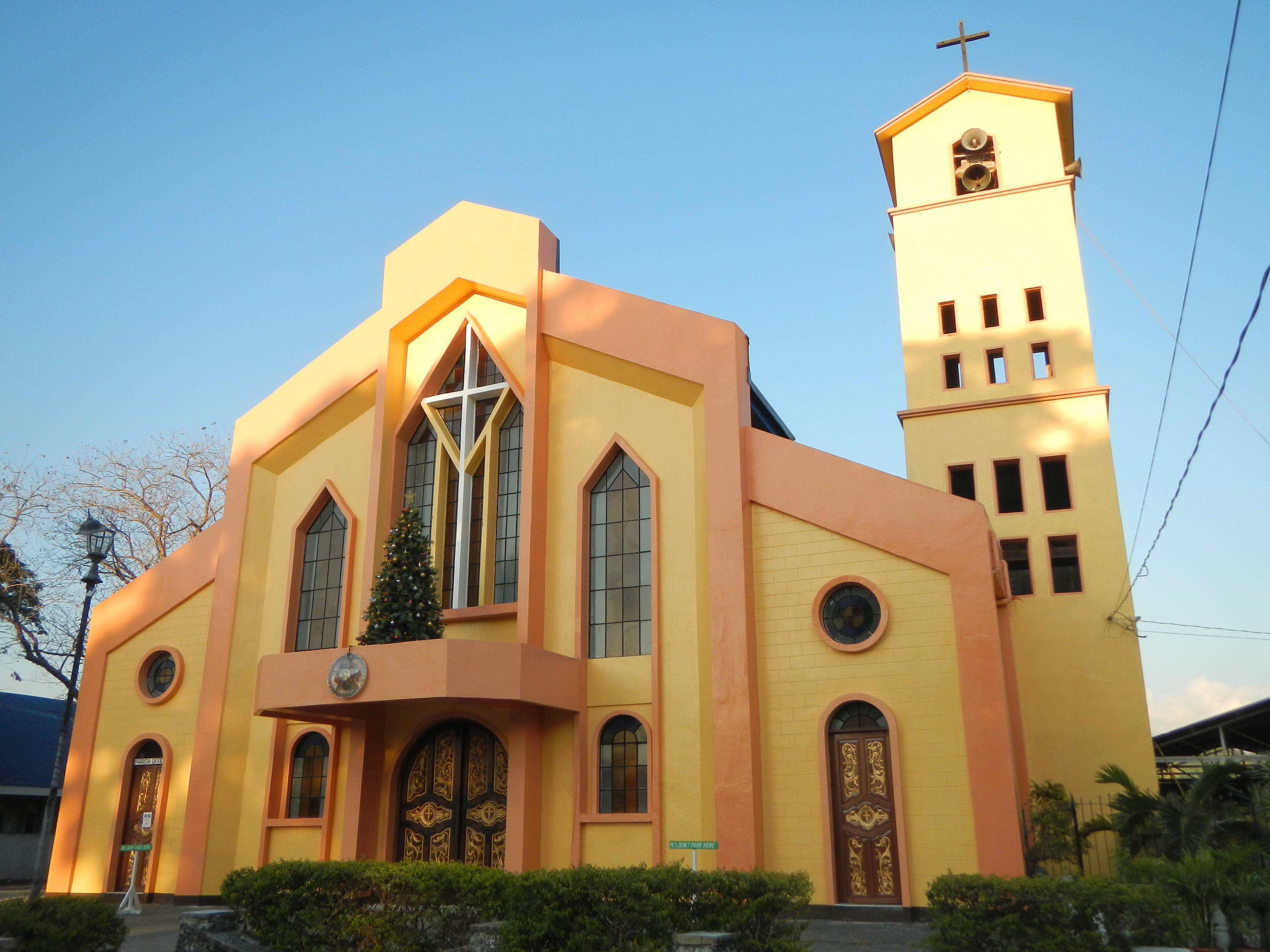 1785 Holy Guardian Angels, October 2 (Shrine of Nuestra Señora del Mar Cautiva) Parish Church Sto. Tomas (F-1785): 2505 La Union, Philippines Titular: Parish Priest: Father Raul S. Panay[1] Vicariate of St. Francis Xavier Vicar Forane: Father Raul S. Panay[2] Roman Catholic Diocese of San Fernando de La Union Santo Tomas, La Union[3][4]